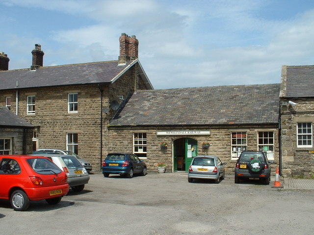 Leyburn Station Entrance near to Leyburn, North Yorkshire.